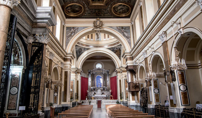 Interior of the Sanctuary of Saint Philomena, Mugnano del Cardinale (Italy)